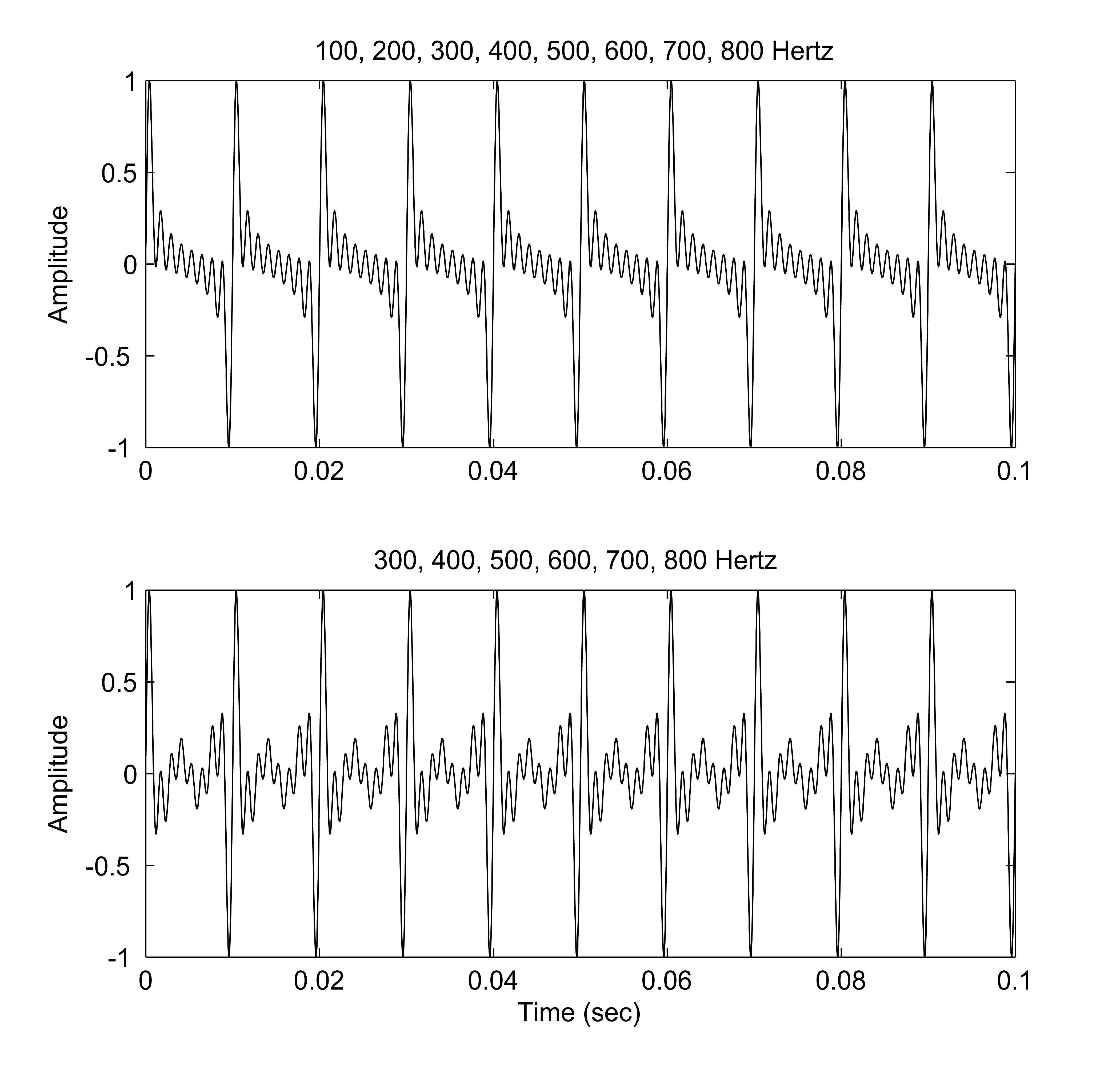 This image shows the clear common periodicity of two waveforms: One is a full spectrum, containing the fundamental frequency along with several higher harmonics. The second does not include the fundamental frequency or the second harmonic, but the periodicity still reflects the fundamental.